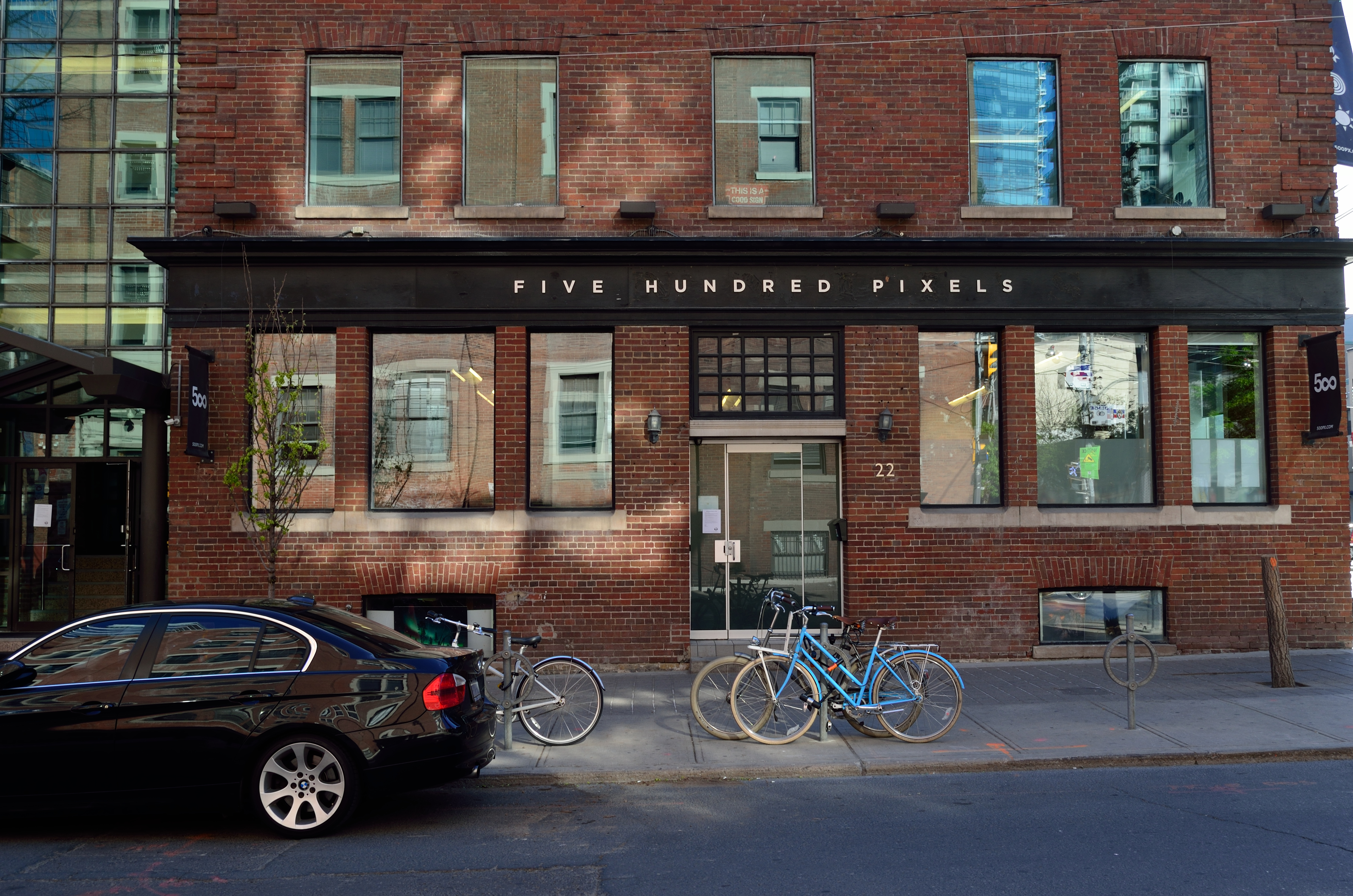 Five Hundred Pixels office in Toronto